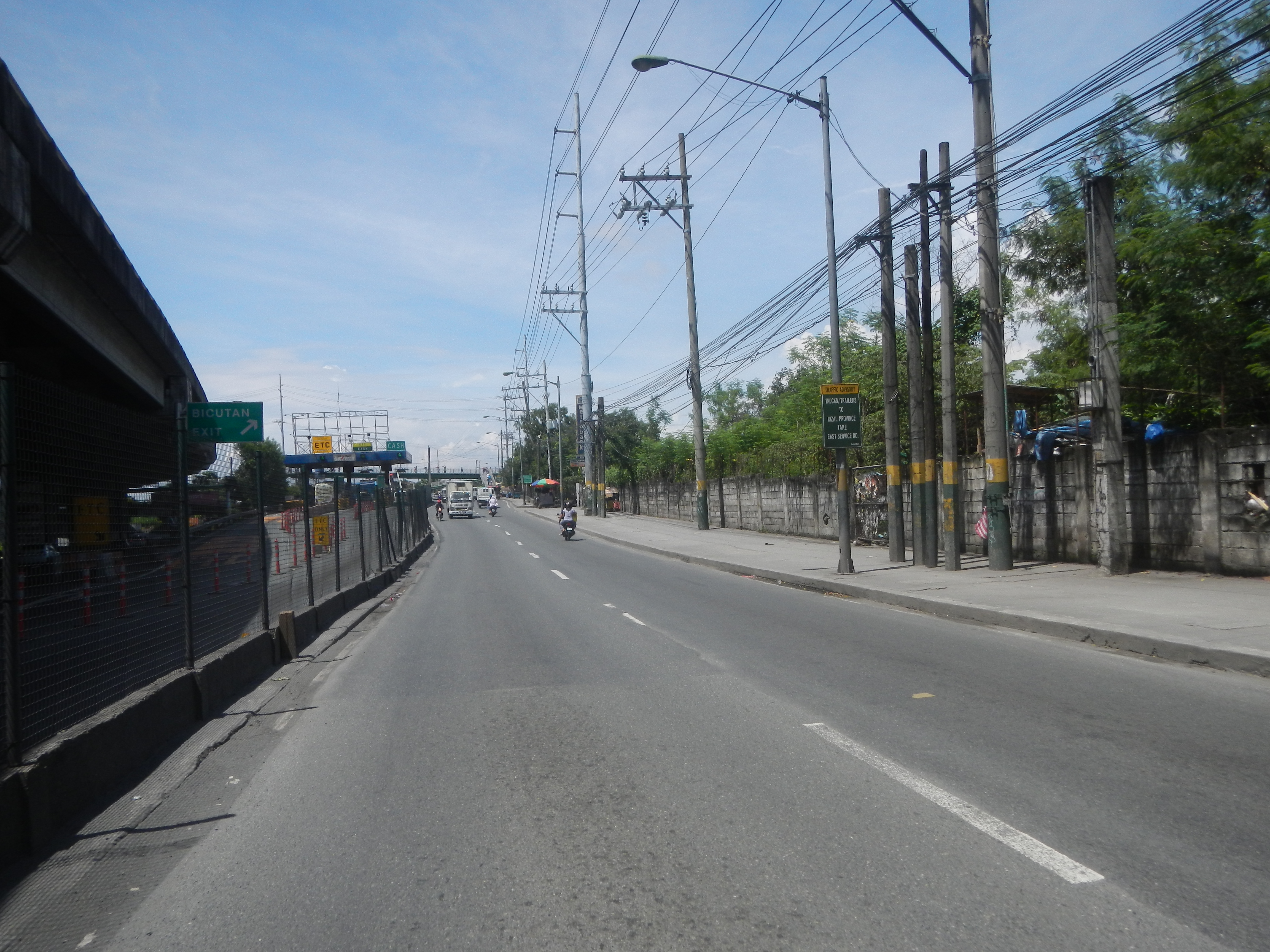 East Service Road (Bicutan, Taguig City-Parañaque City) East Service Road 14°28'8"N 121°2'43"E Waltermart - Bicutan (East Service Road, San Martin De Porres, Parañaque City) Perpetual Village (Tanyag, Taguig City), Legislative district of Taguig City Legislative district of Pateros-Taguig City Barangay Tanyag 14°28'43"N 121°2'54"E Bagumbayan 14°28'33"N 121°3'18"E Bagumbayan, Taguig, Upper Bicutan Upper Bicutan 14°29'52"N 121°2'59"E Barangay Western Bicutan, Taguig City Western Bicutan (Taguig) 14°31'3"N 121°2'22"E Taguig City bounded by List of barangays of Metro Manila, Legislative districts of Parañaque 1st District, Districts and barangays, San Martin de Porres 14°28'54"N 121°2'33"E Parañaque City (Note: Judge Florentino Floro, the owner, to repeat, Donor Florentino Floro of all these photos hereby donate gratuitously, freely and unconditionally all these photos to and for Wikimedia Commons, exclusively, for public use of the public domain, and again without any condition whatsoever).